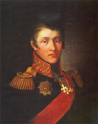 Suvorov A. A.